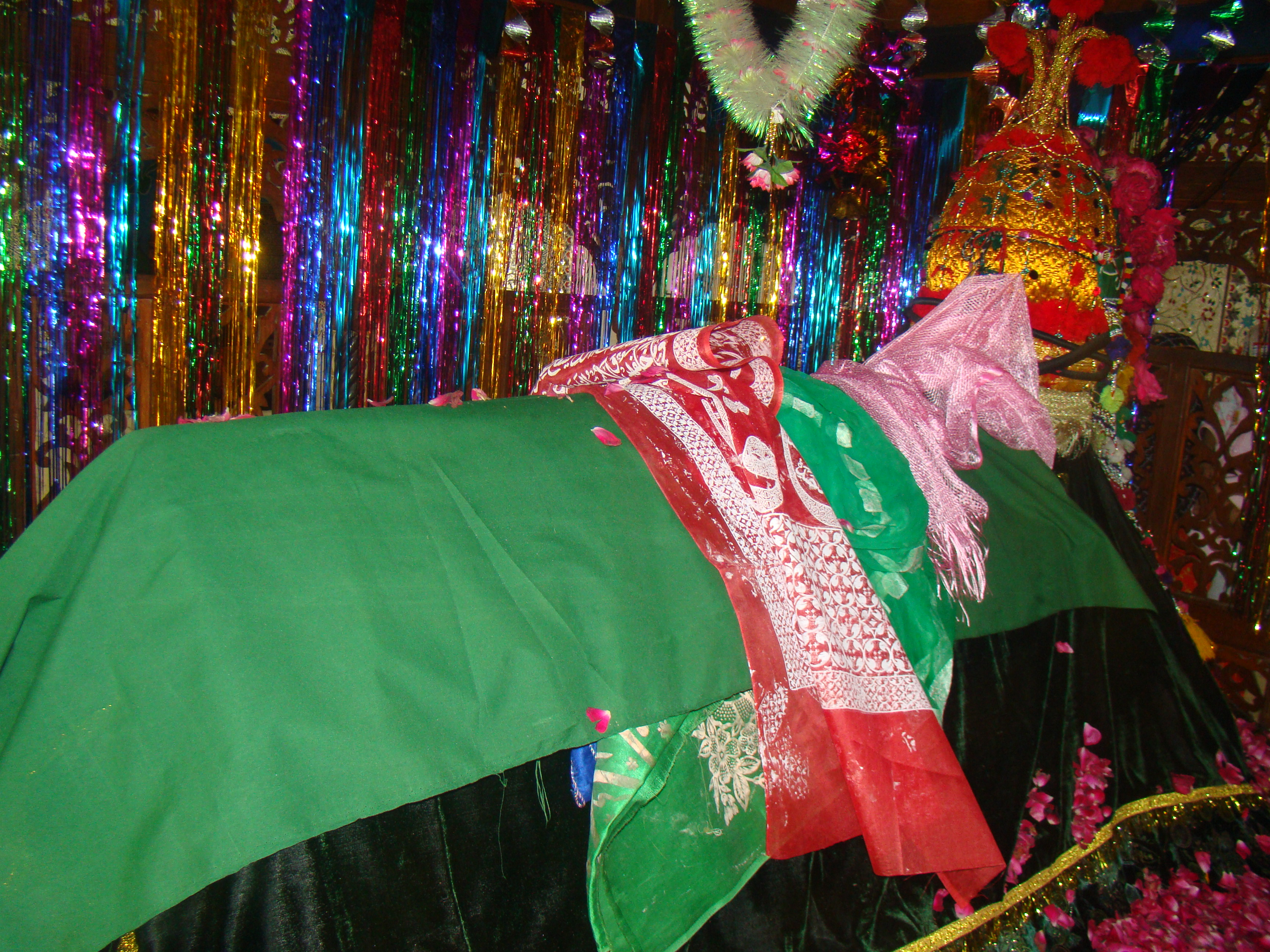 سنڌي: Picture of Hazrat Makhdoom bilawal Shrine